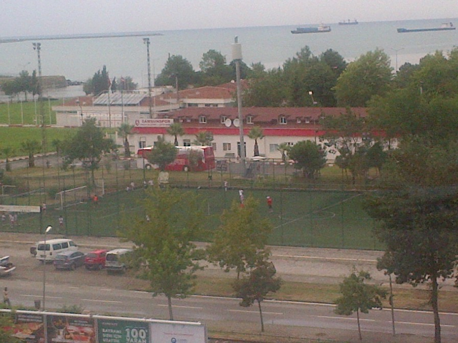 Samsunspor training field at the district of Canik, Samsun.